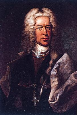 Count Guido Starhemberg austrian military leader (1657-1737)